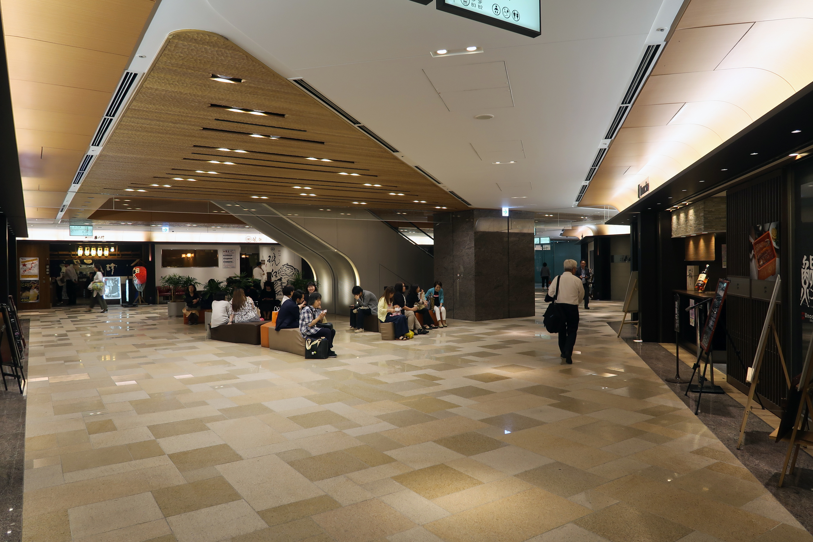 Lino Building Underground mall